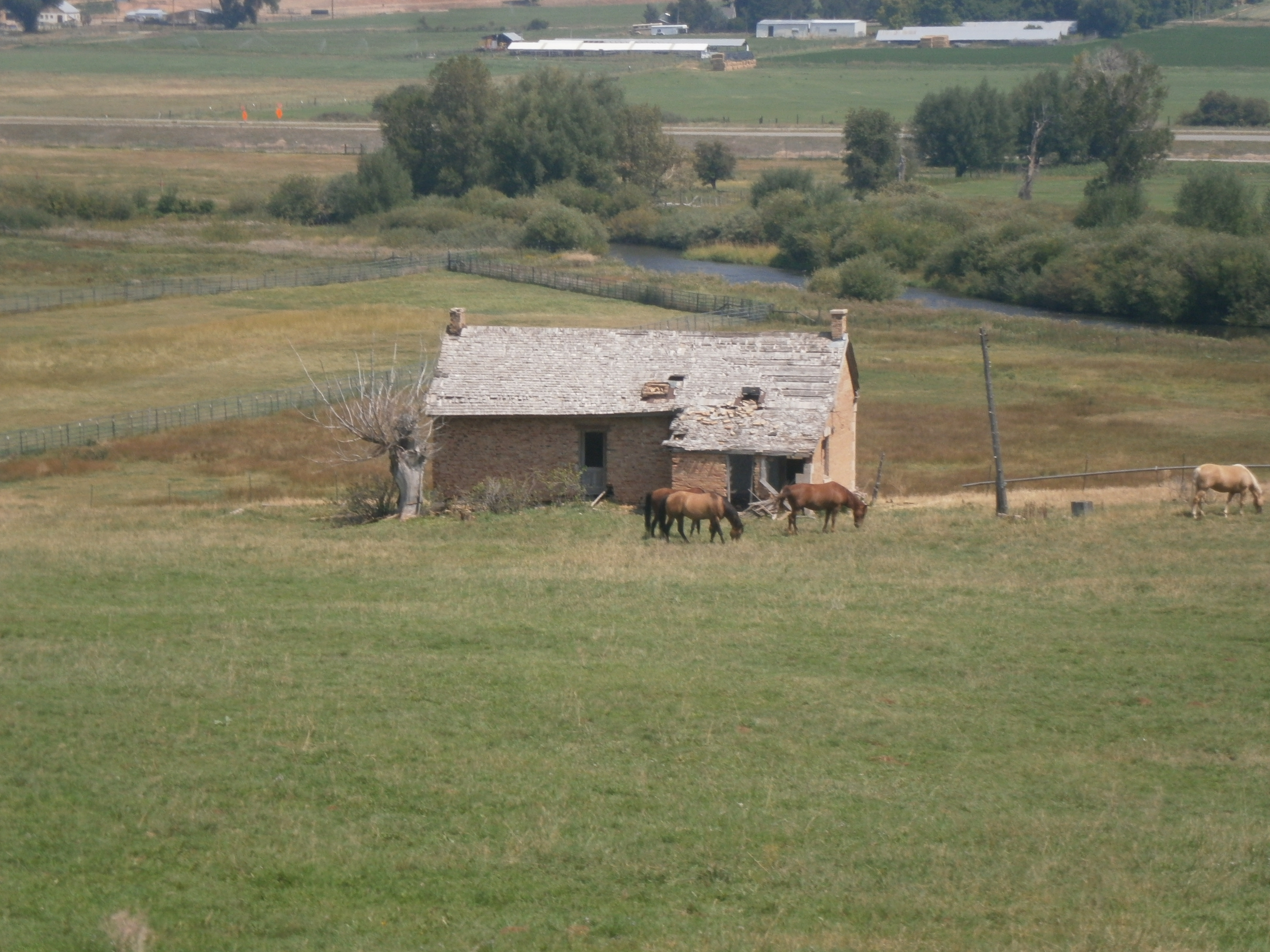 The Annie Birch House, a historic home in Hoytsville, Utah, United States.